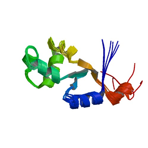 2KEO Structure of the cytochrome-b5-like domain in HERC2 by NMR